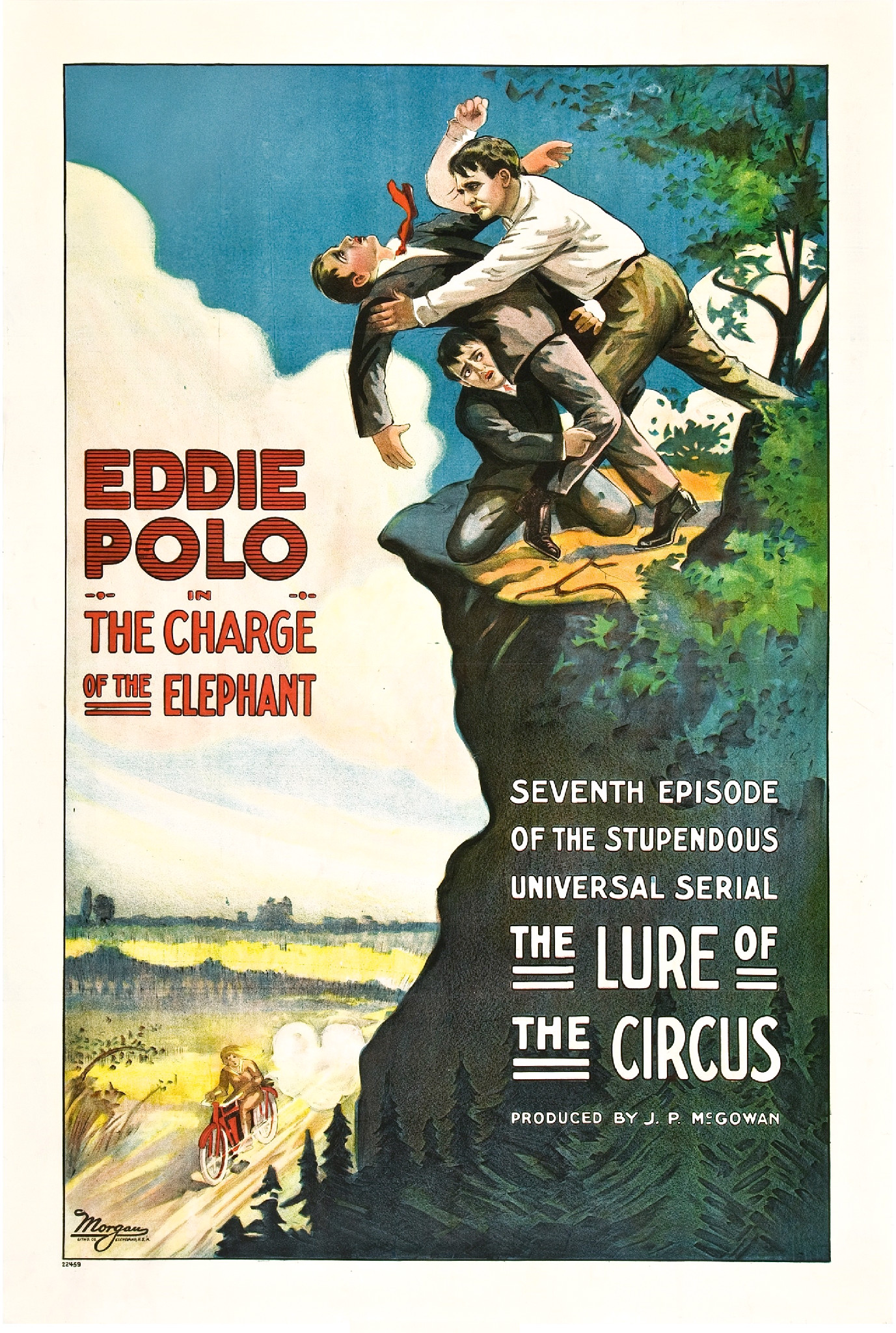 Poster for the 1918 film Lure of the Circus. The film is presented in serial form and this poster is for the seventh episode, "The Charge of the Elephant".